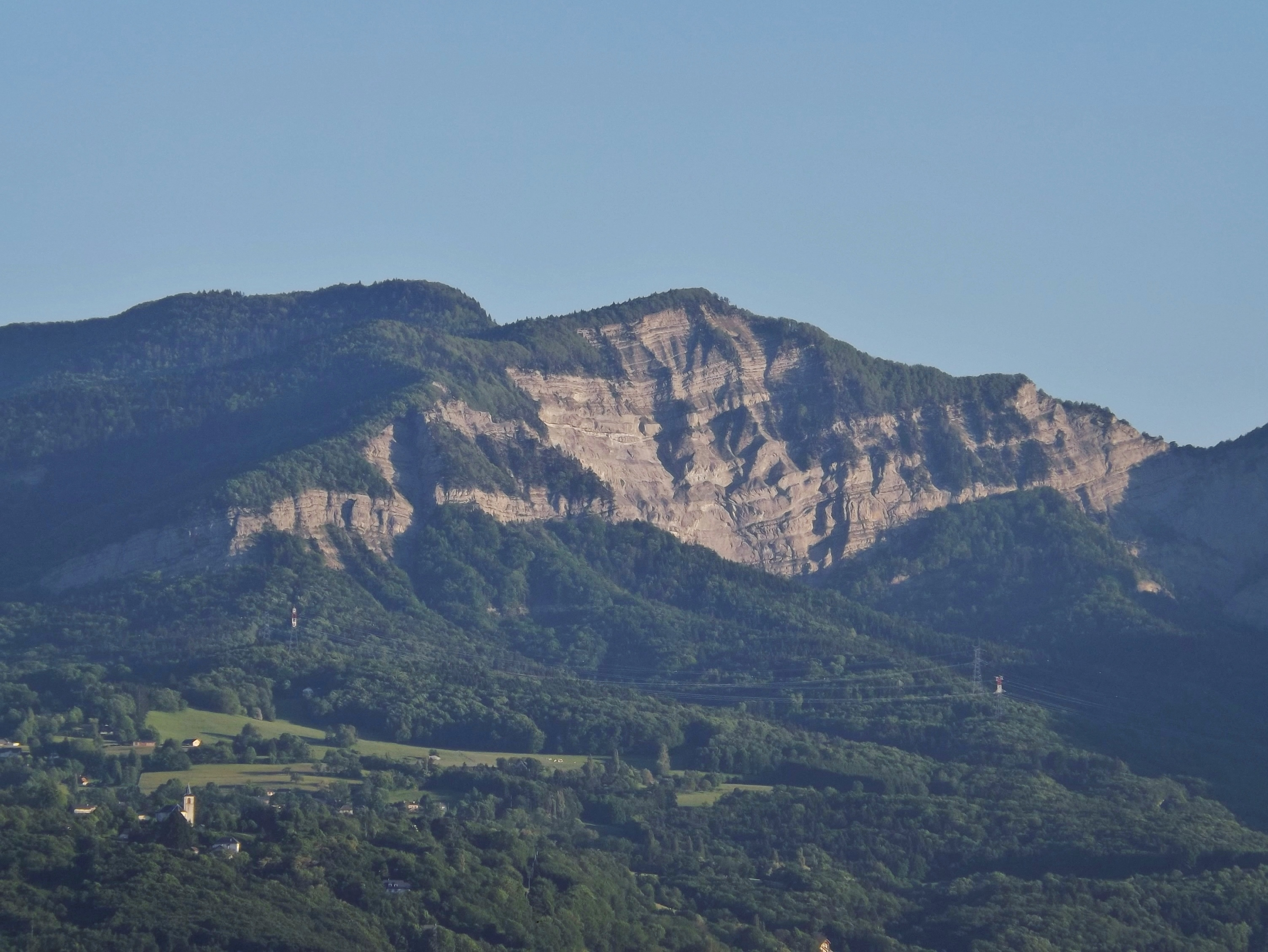 Panoramic sight, in the sunset from the heights of Chambéry, on the French commune and village of Montagnole at the North of the Chartreuse mountain range, in Savoie, France.